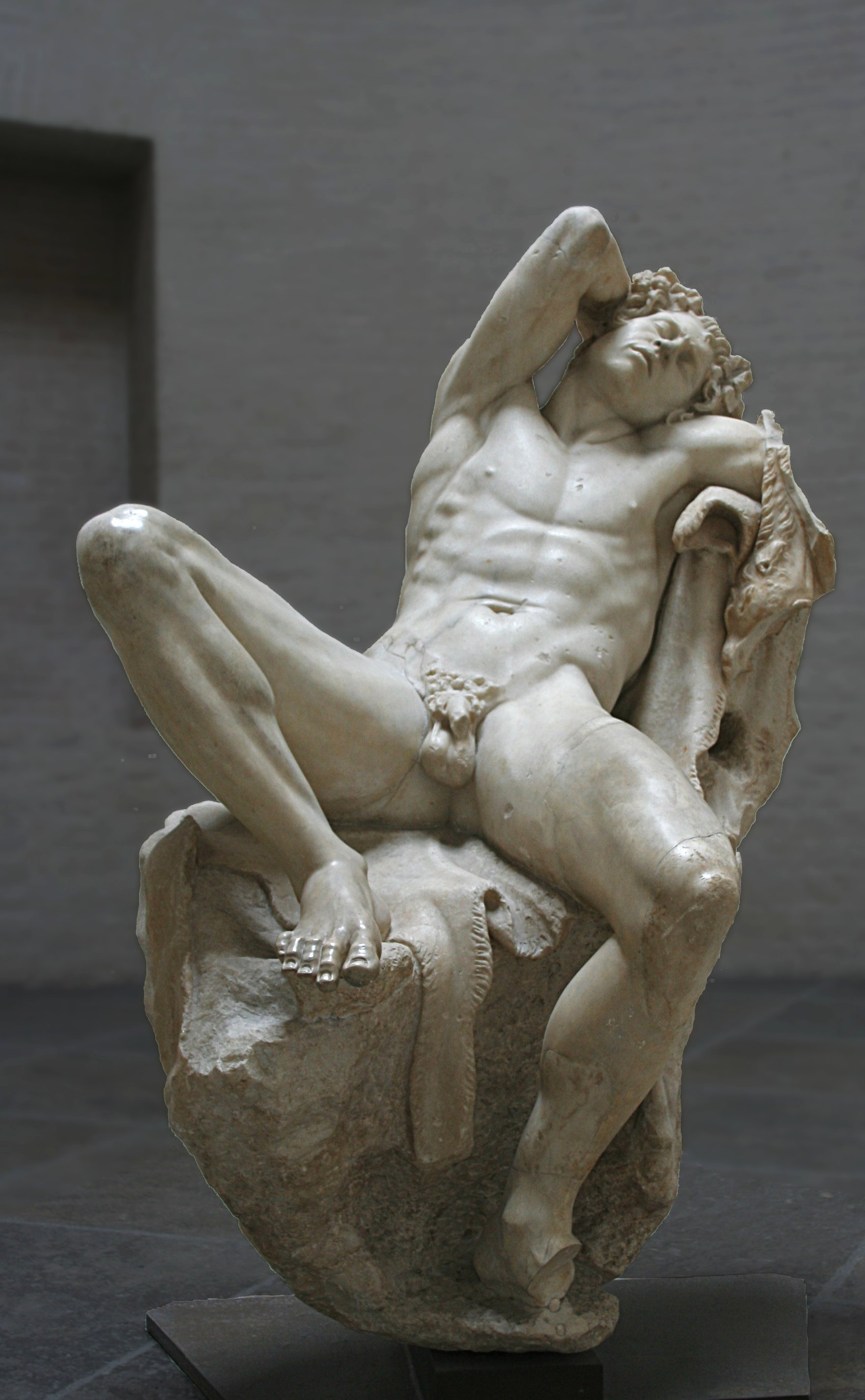 Marble copy by a Hellenistic sculptor of the Pergamene school or a Roman sculptor, of a bronze original.